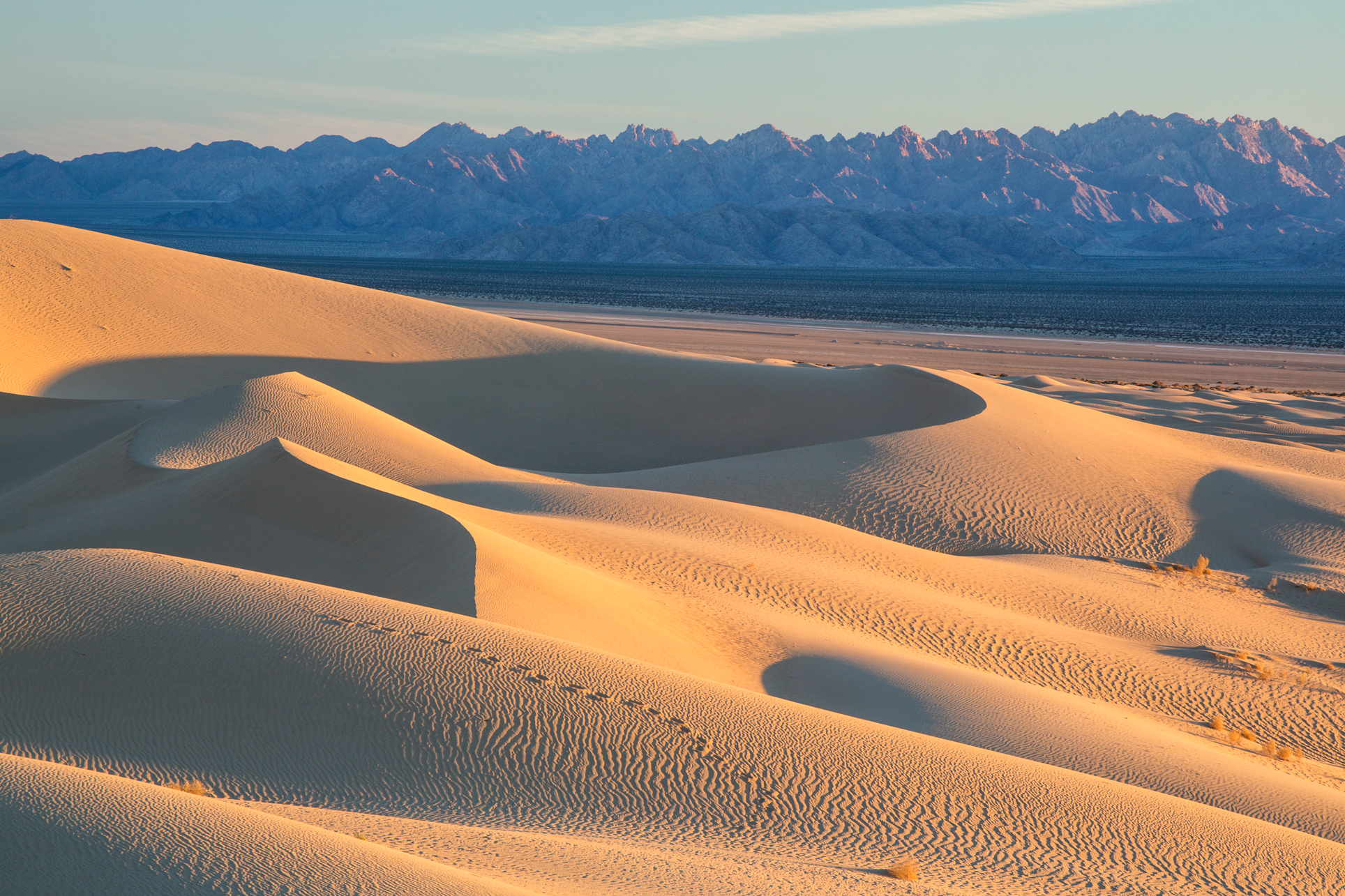 Sand to Snow shares a common boundary with Joshua Tree National Park, which in turn connects to Mojave Trails National Monument—the largest new addition at 1.6 million acres. Lava flows and mountains spread across this tract of the Mojave Desert. The focal point is the sand dunes; in particular, the remote and nearly pristine Cadiz Dunes that formed from the sand of dry lake beds. The second photograph above shows the ground-based view of dunes within the monument. Despite the remoteness of this monument, the area is well traveled. The corridor connects the deserts of the southwest to the Pacific Coast and has been travelled by people for thousands of years. The Southern Pacific railroad and Route 66 are the most famous byways through this desert landscape.